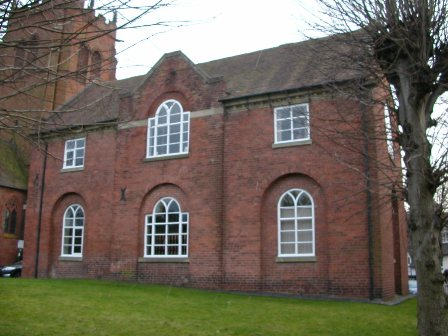 Bridgnorth Grammar School - Old Grammar School Building.